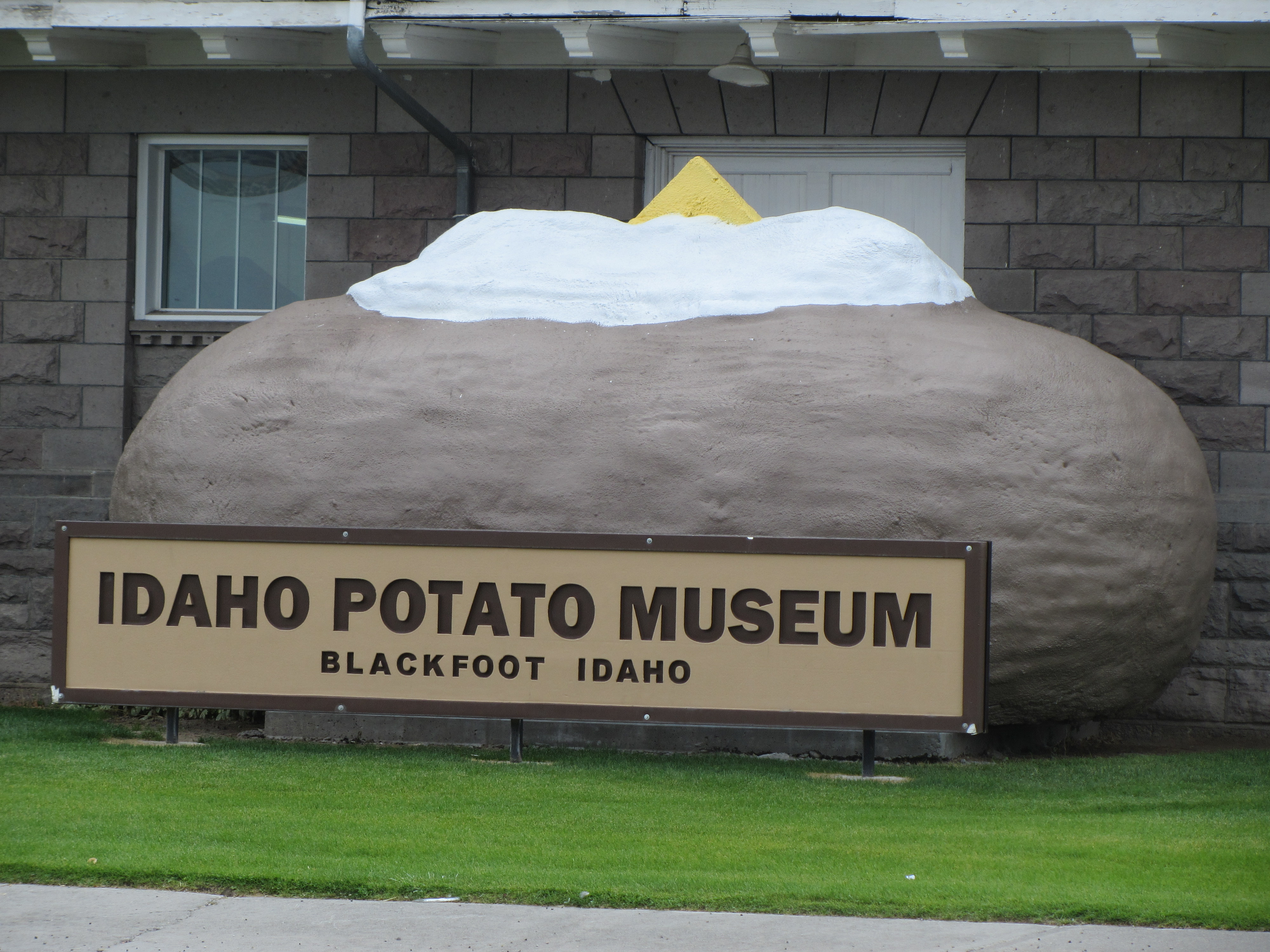 Photo opportunity outside of the Idaho Potato Museum in Blackfoot, ID. 130 Northwest Main St; Blackfoot, ID 83221